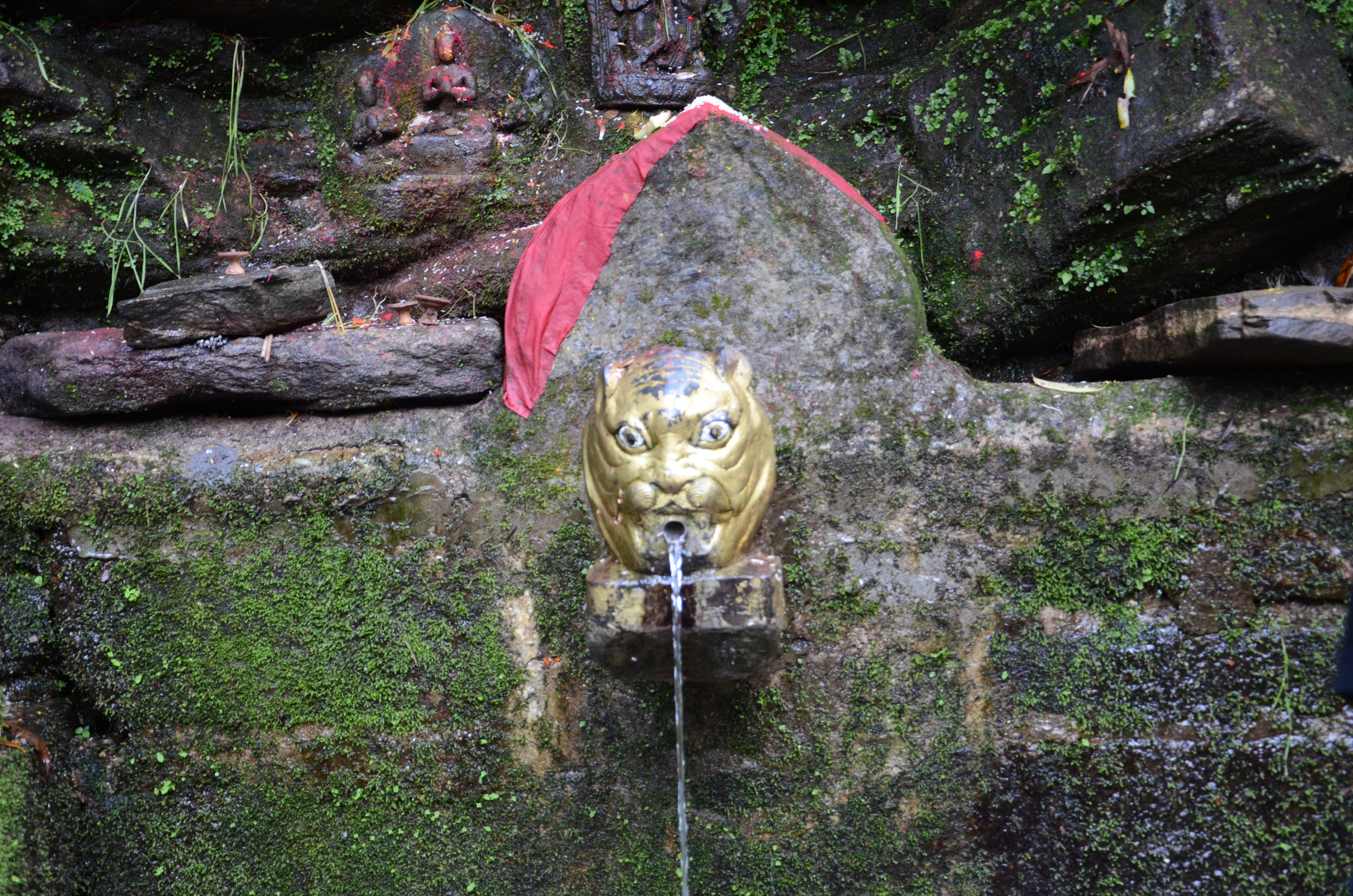 Baagdwar